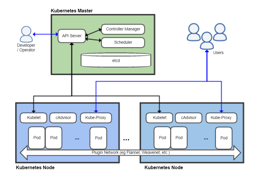 Kubernetes